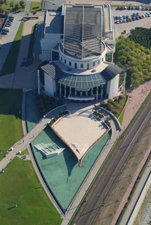 National Theater, Ferencváros, Budapest, Hungary, aerial photography